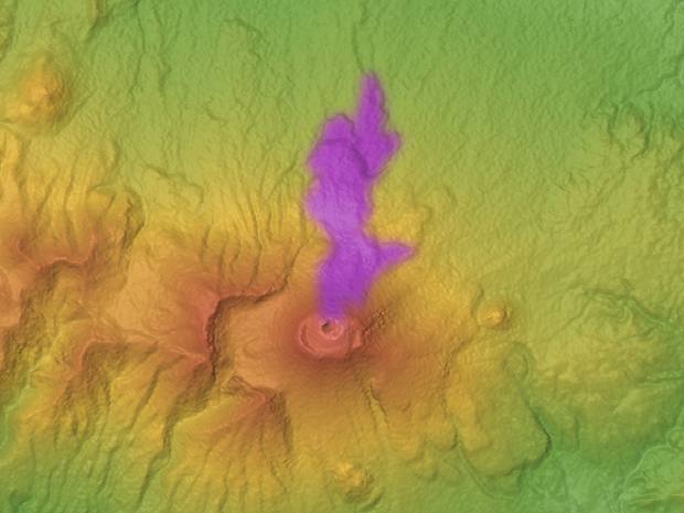 Mount Asama's Onioshidashi lava flow (1783) in Gunma Prefecture, Honshu, Japan.